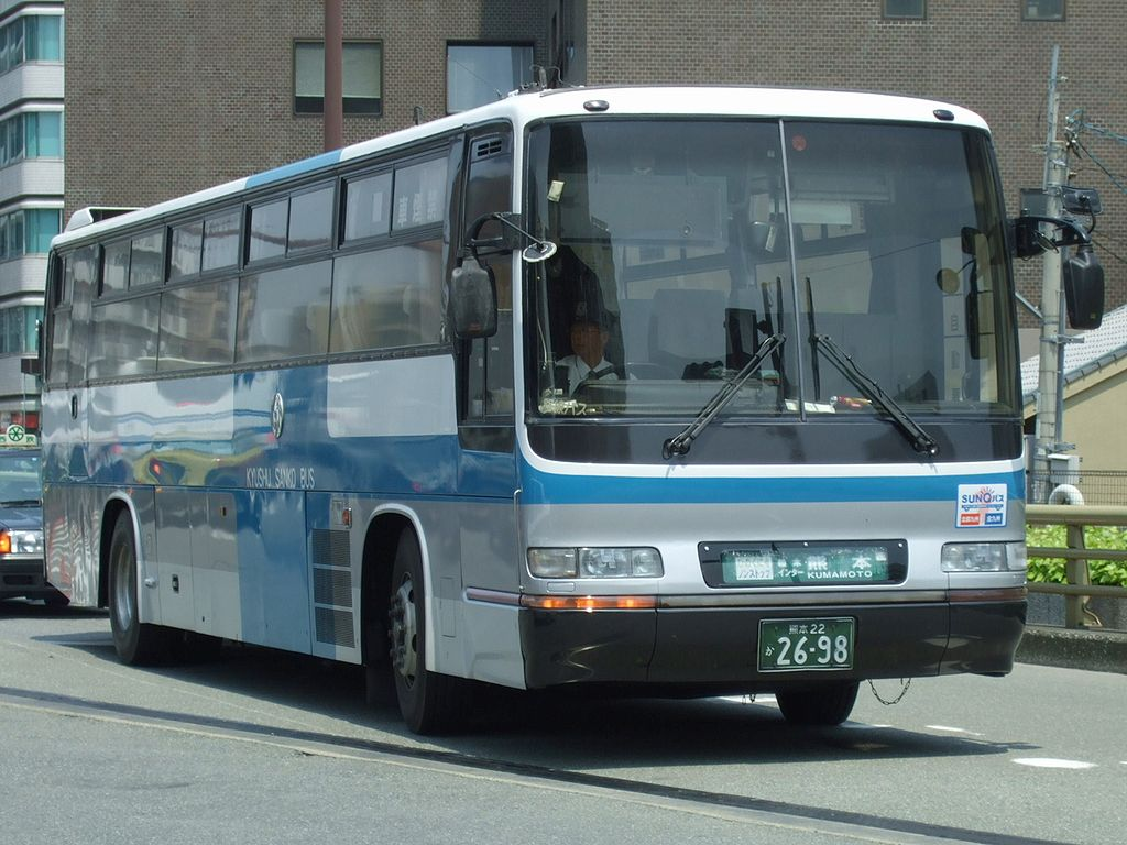 Company:Kyushu Sanko Bus Use:highway bus Car license:熊本22 か 2698 Chassis manufacturer:Hino Motors Coachbuilder:Hino Body Location:in Fukuoka City, Fukuoka, Japan.